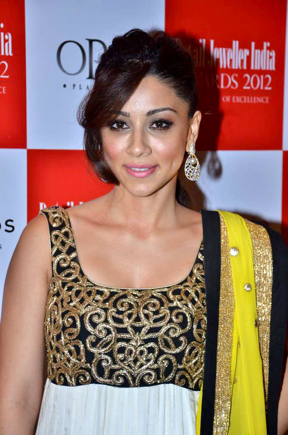 Amrita Puri at '8th Annual Gemfields RioTinto Retail Jeweller India Awards 2012' meet